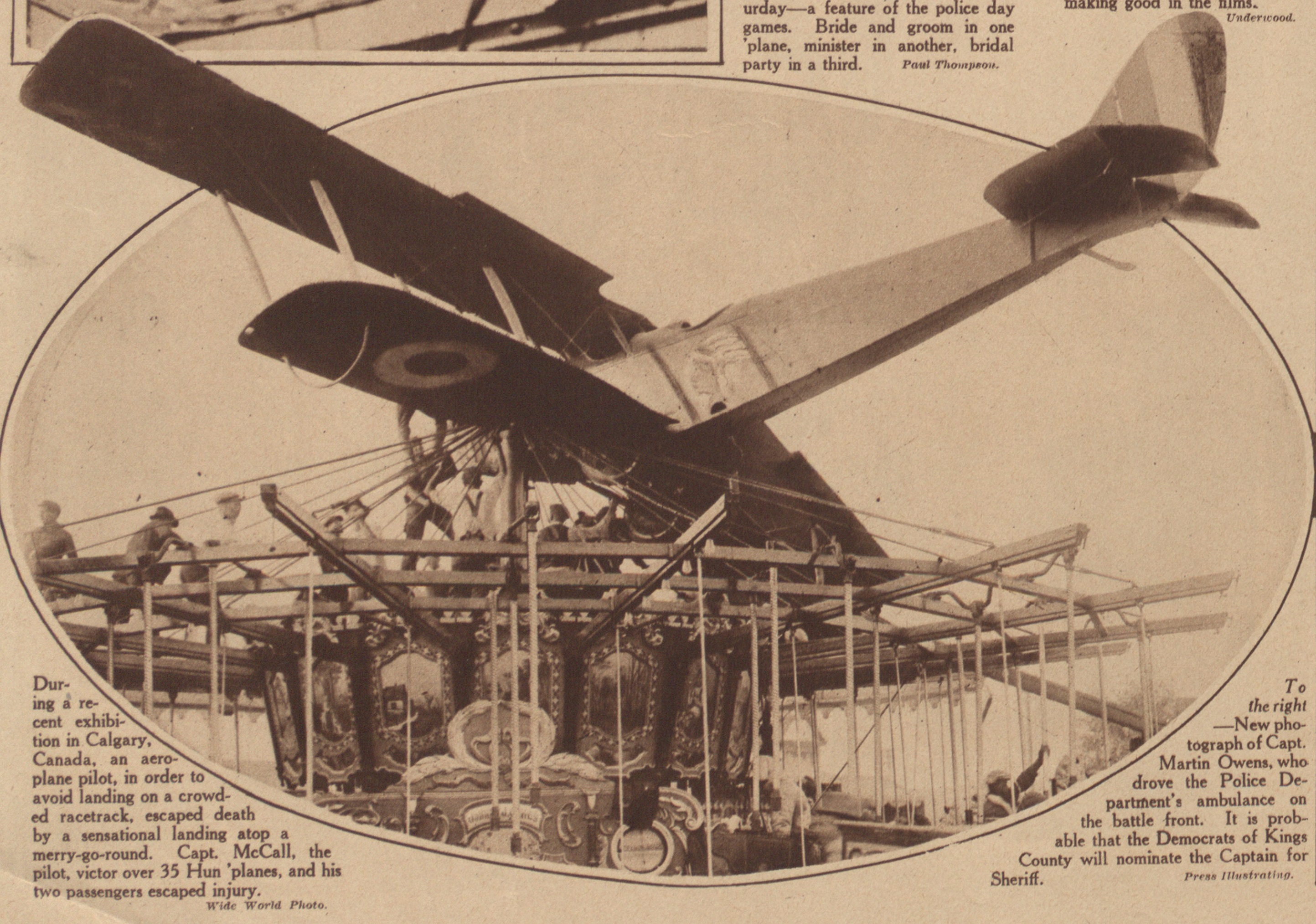 Caption: "During a recent exhibition in Calgary, Canada, an aeroplane pilot, in order to avoid landing on a crowded racetrack, escaped death by a sensational landing atop a merry-go-round. Capt. McCall, the pilot, victor over 35 Hun 'planes, and his two passengers escaped injury."